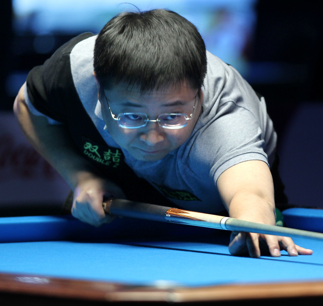 China's Lee He Wen in action during the World 9-Ball Pool Championship in Doha. Picture by Vinod Divakaran